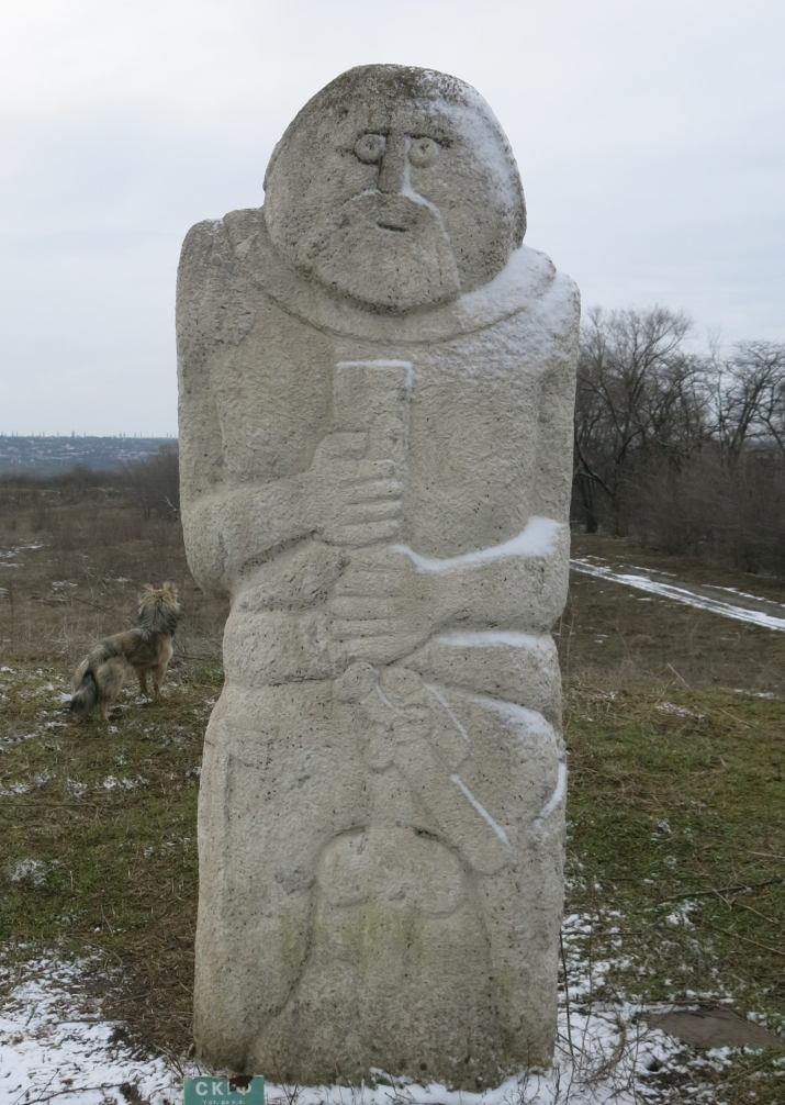 The Khortytsya Reserve. Scythian camp. Kurgan stelae at the Sentinel's Barrow.